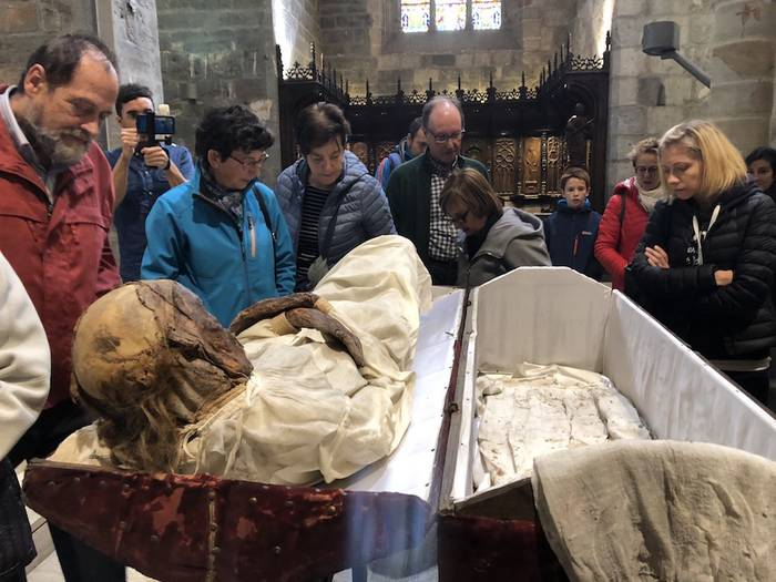 Not a saint, but the mummified corpse of a Basque noblewoman, Ines Ruiz de Otalora, shown in the church of Arrasate